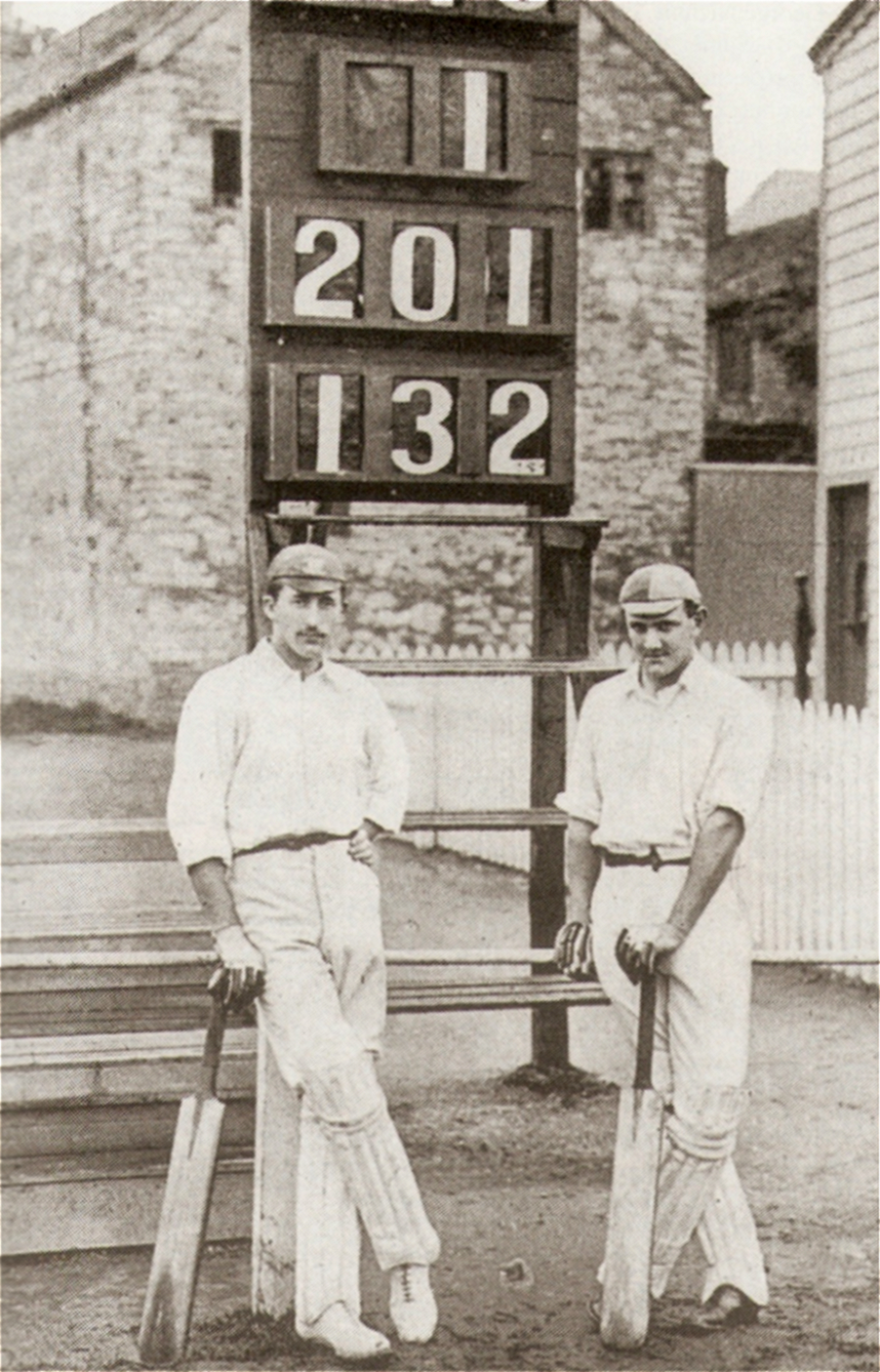 Lionel Palairet (left) and Herbie Hewett (right) posing by the scoreboard after scoring a record Somerset first-wicket partnership of 346. Photo taken on Day 2 of the match, a County Championship match between Somerset and Yorkshire at the County Ground, Taunton.